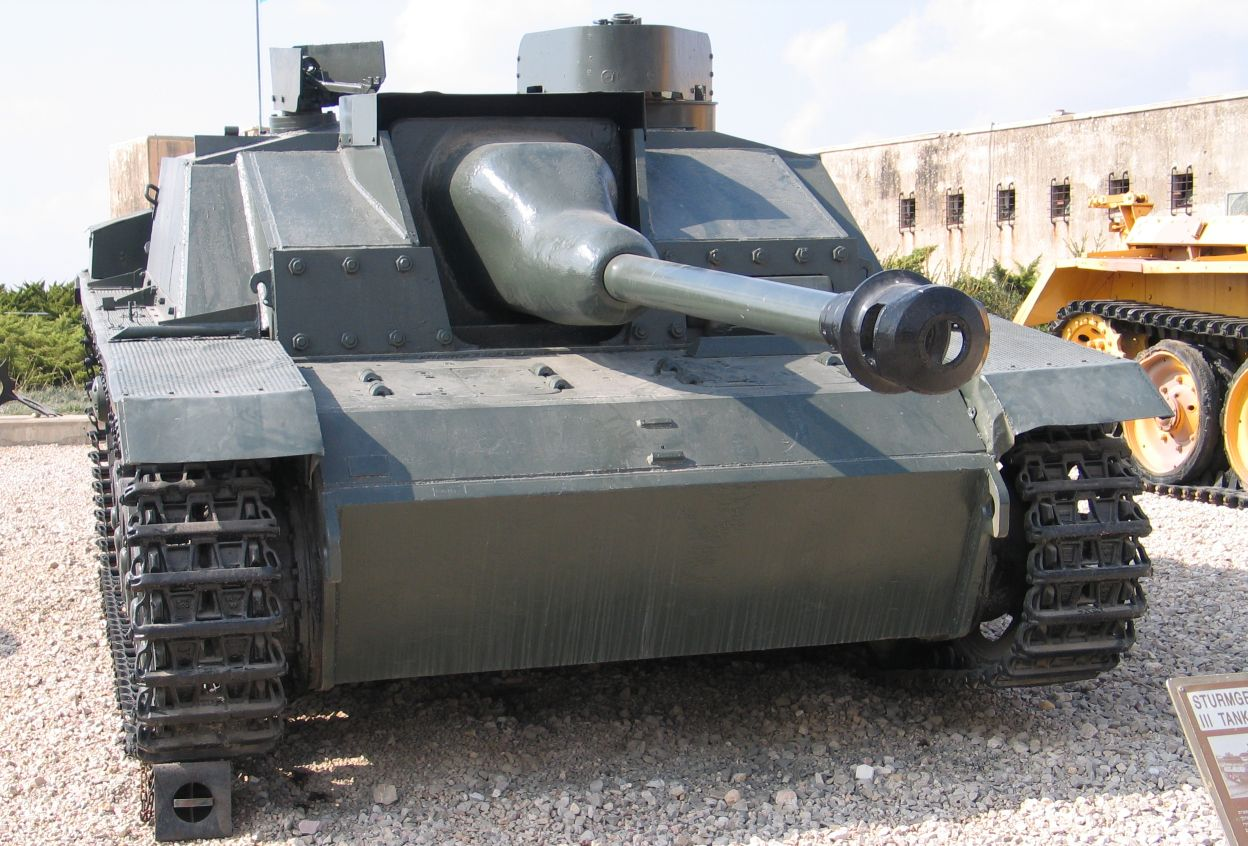 Sturmgeschütz III Ausf G, captured from the Syrian Army, in Yad la-Shiryon Museum, Israel.